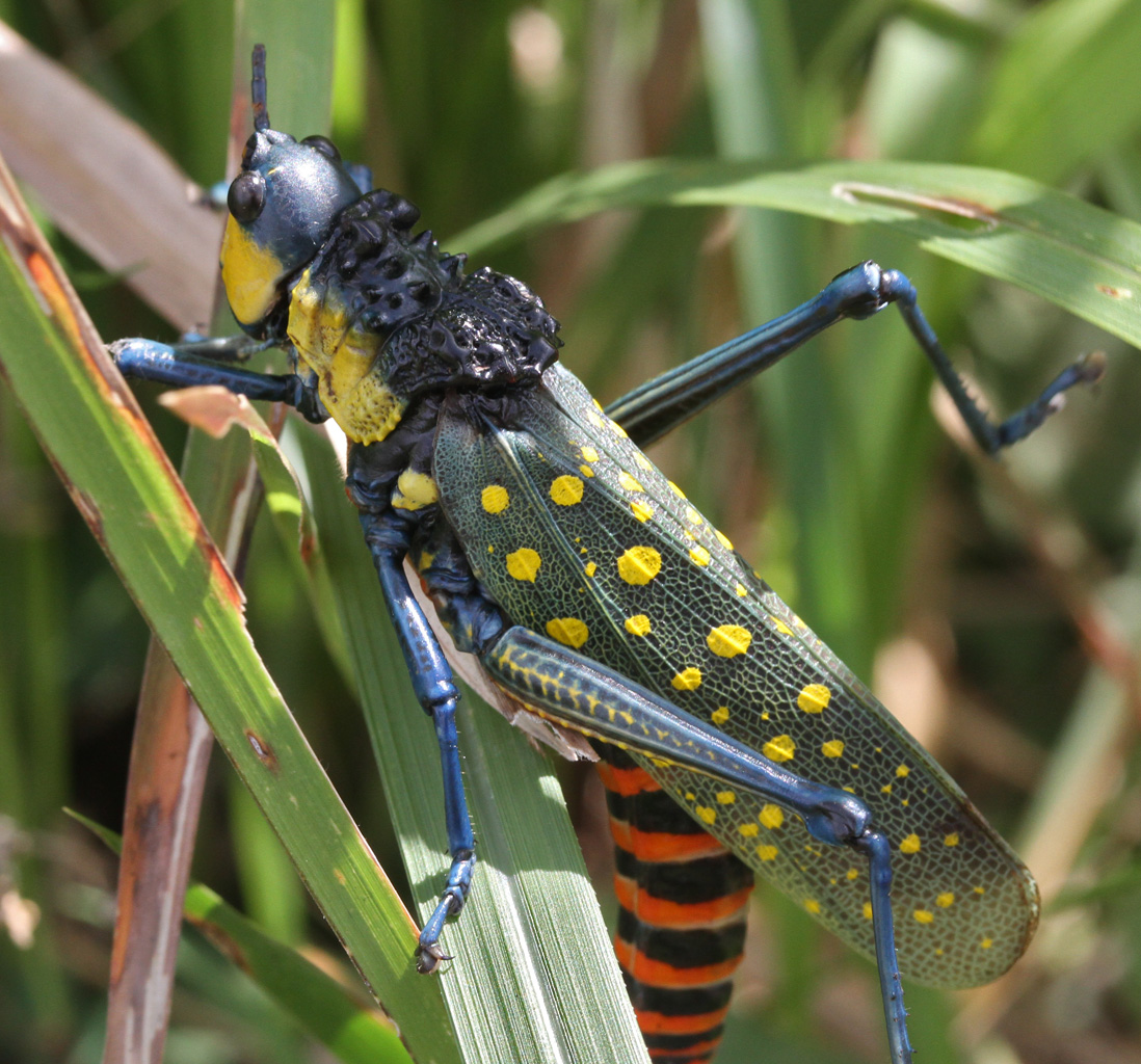 Aularches miliaris or spotted grasshopper, photographed near Ubud, Bali, Indonesia in May 2012.